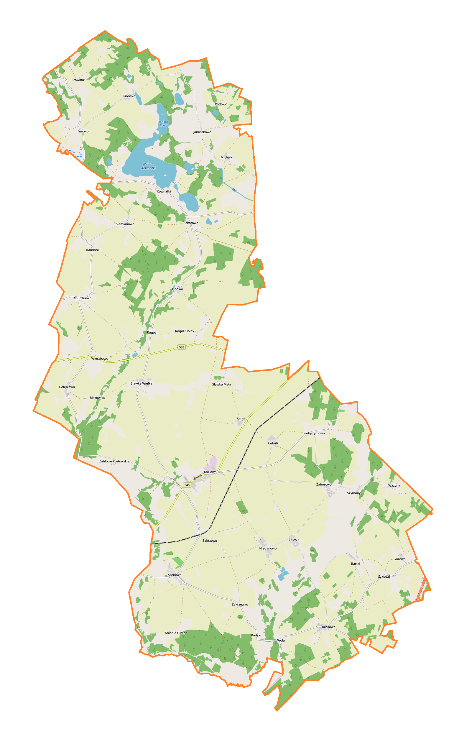 Location map